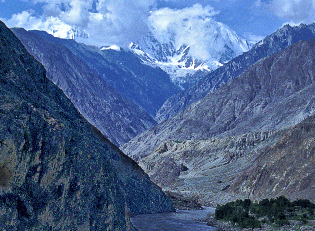 The deepest canyon in the world, the Indus Gorge with Nanga Parbat, the world's 9th highest mountain rising to the south.The Silk Route (Near Gilgit), Pakistan